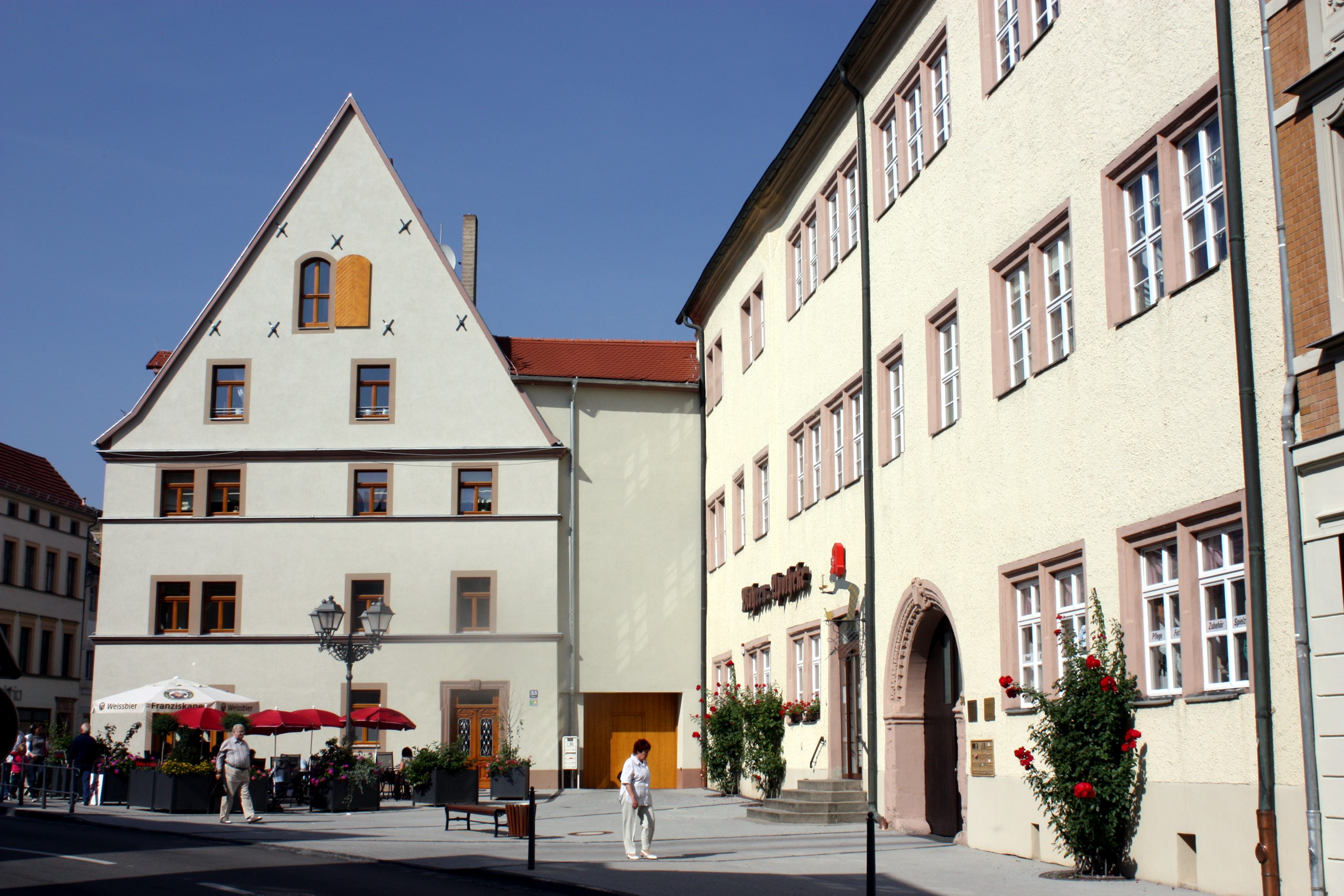 Lutherstadt Eisleben, town square, the historical "Mohren-Apotheke"